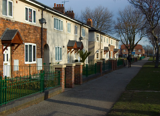 Council Avenue, Hull Houses on the eastern arm of the less-than-appealingly-named Council Avenue, seen here from Askew Avenue, looking towards North Road.